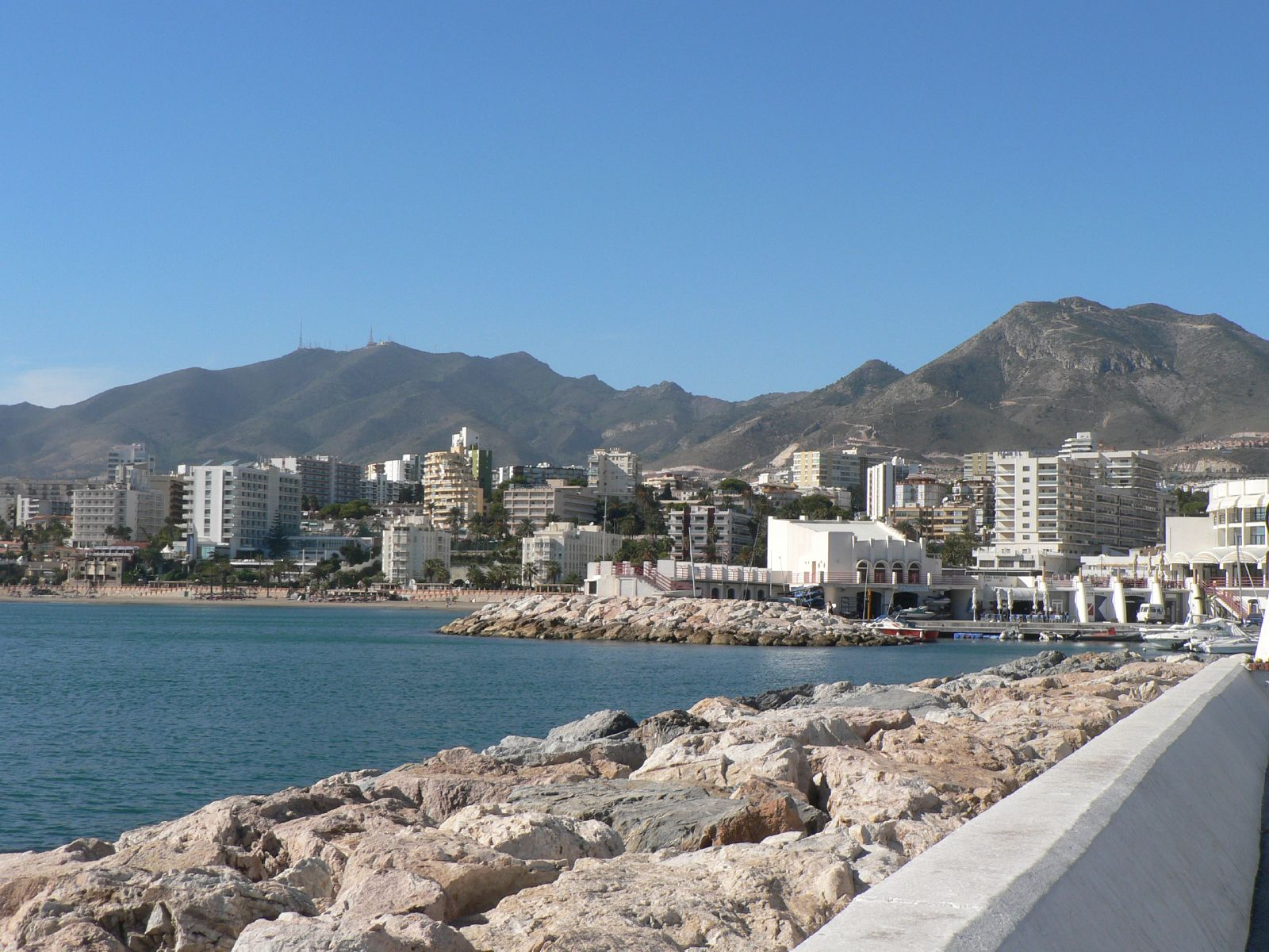 View of Benalmádena, Málaga, Spain